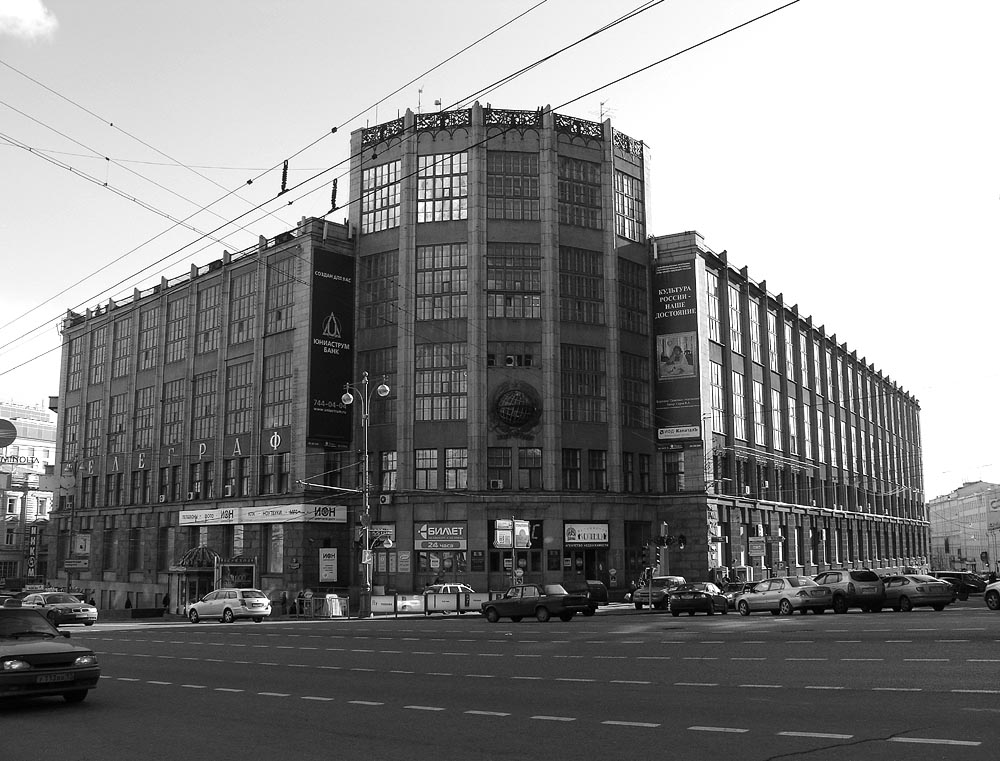 7, Tverskaya Street, Moscow - Central Telegraph, architect: Ivan Rerberg, 1926